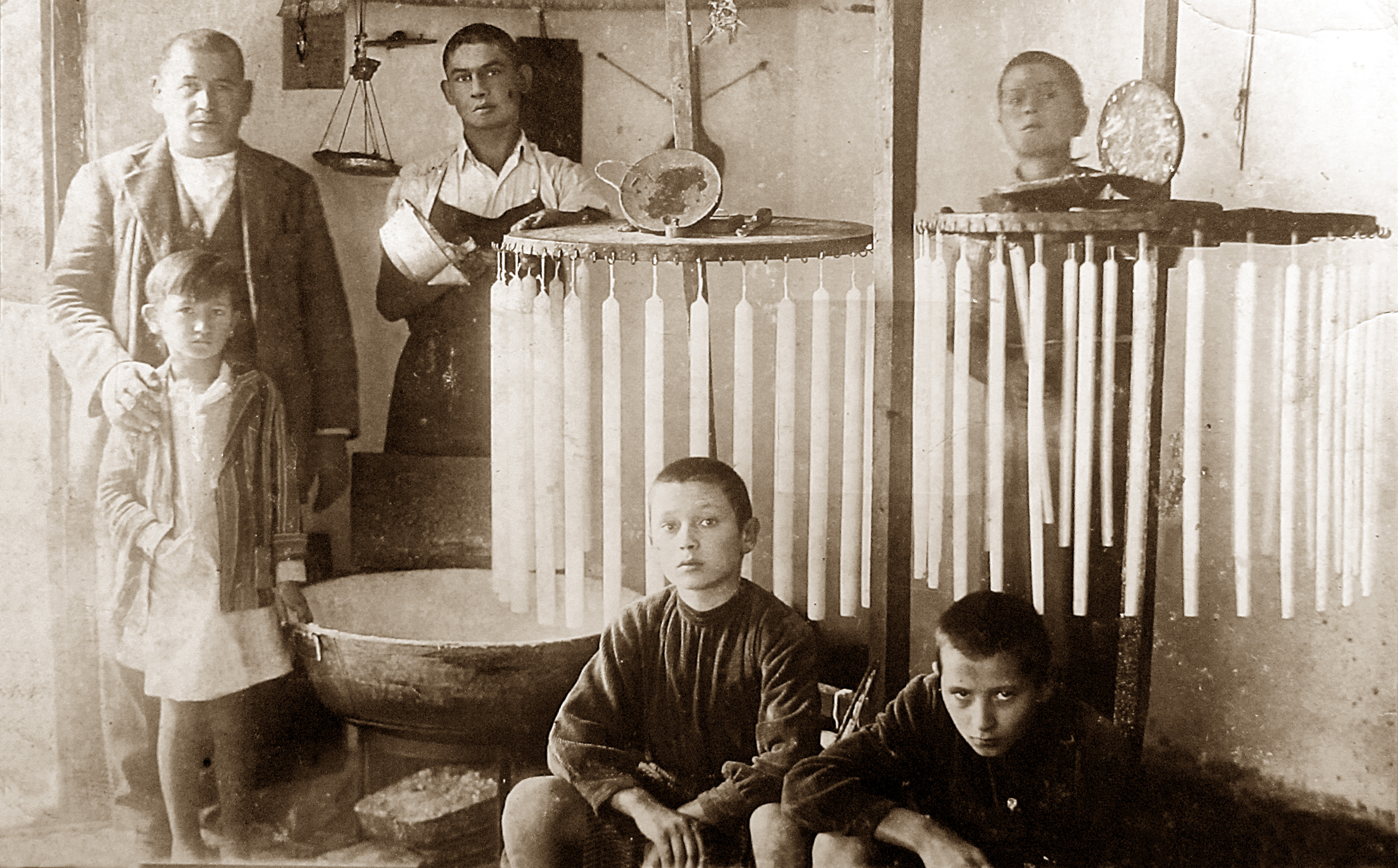 Candle-making (bigining of XX c, Serbia)